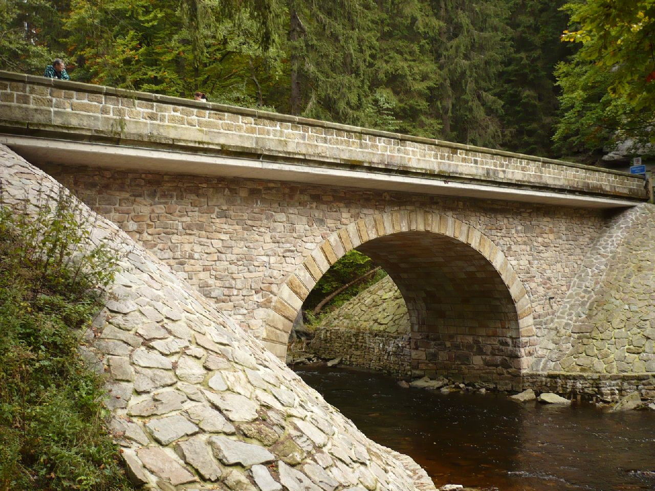 Reserve Zemska brana